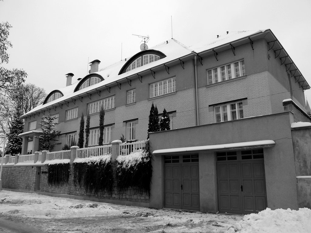 Poldihaus in Kladno by Austrian architect Josef Hoffmann.